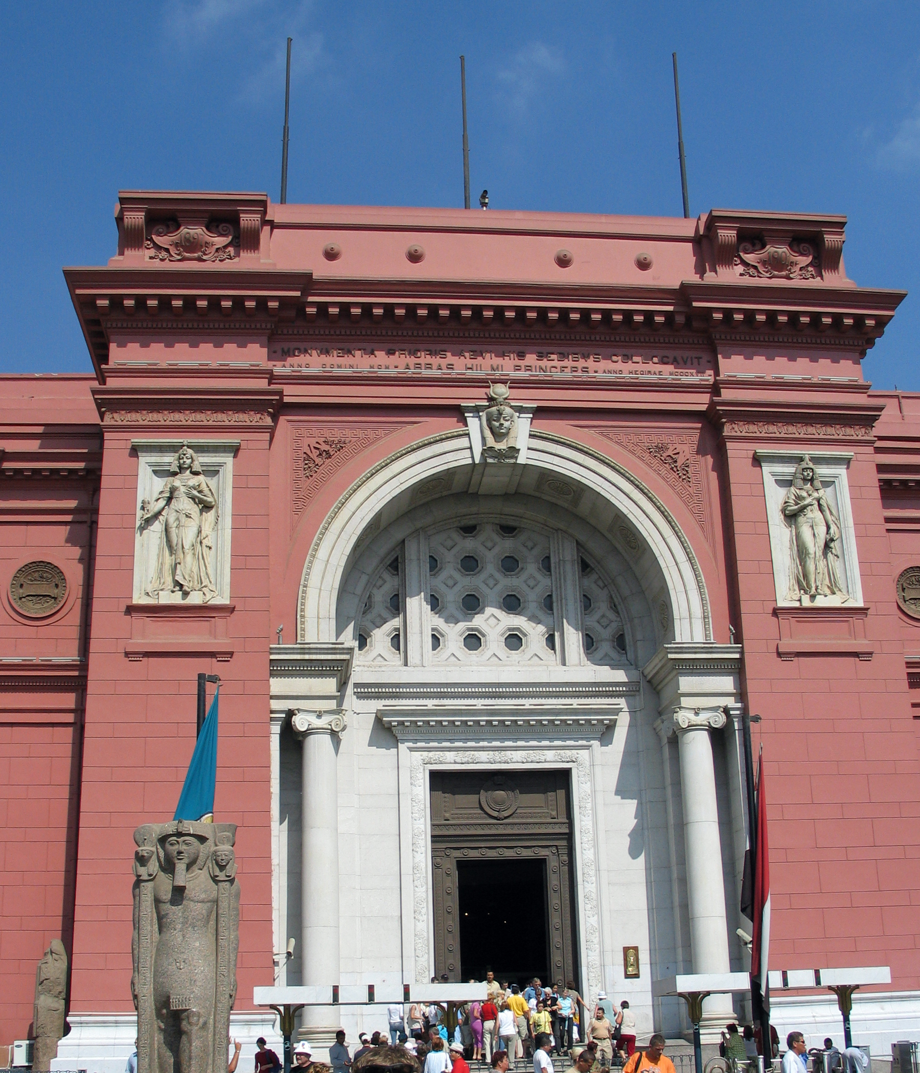 Cairo Museum Fasade, Cairo, Egypt.